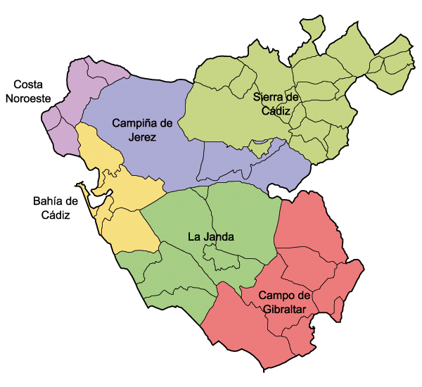 Map of province of Cádiz divided on regions